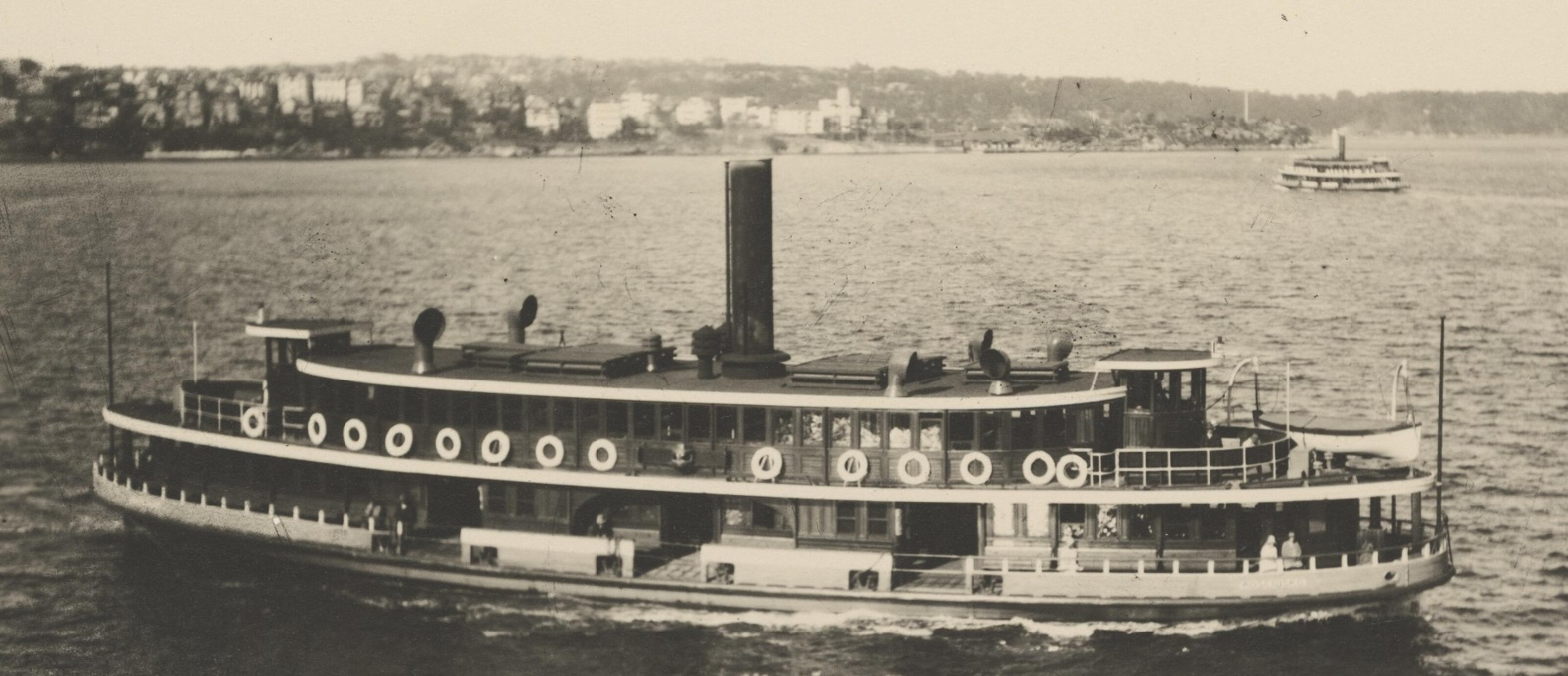 Ferry Kosciusko, Sydney Harbour, ca. 1930 (1920).